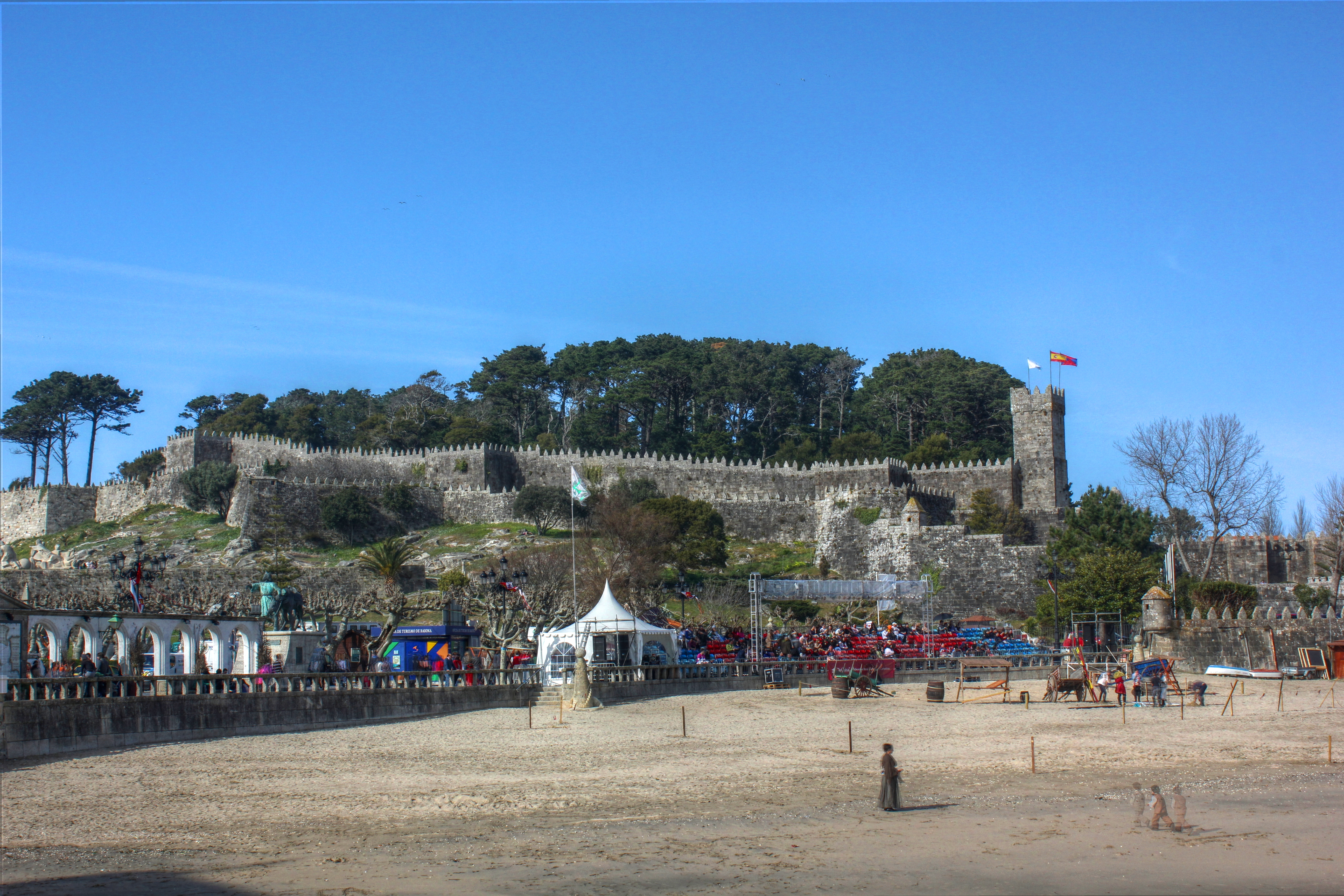 Castle of Monte Real, Baiona, in the Arribada day.